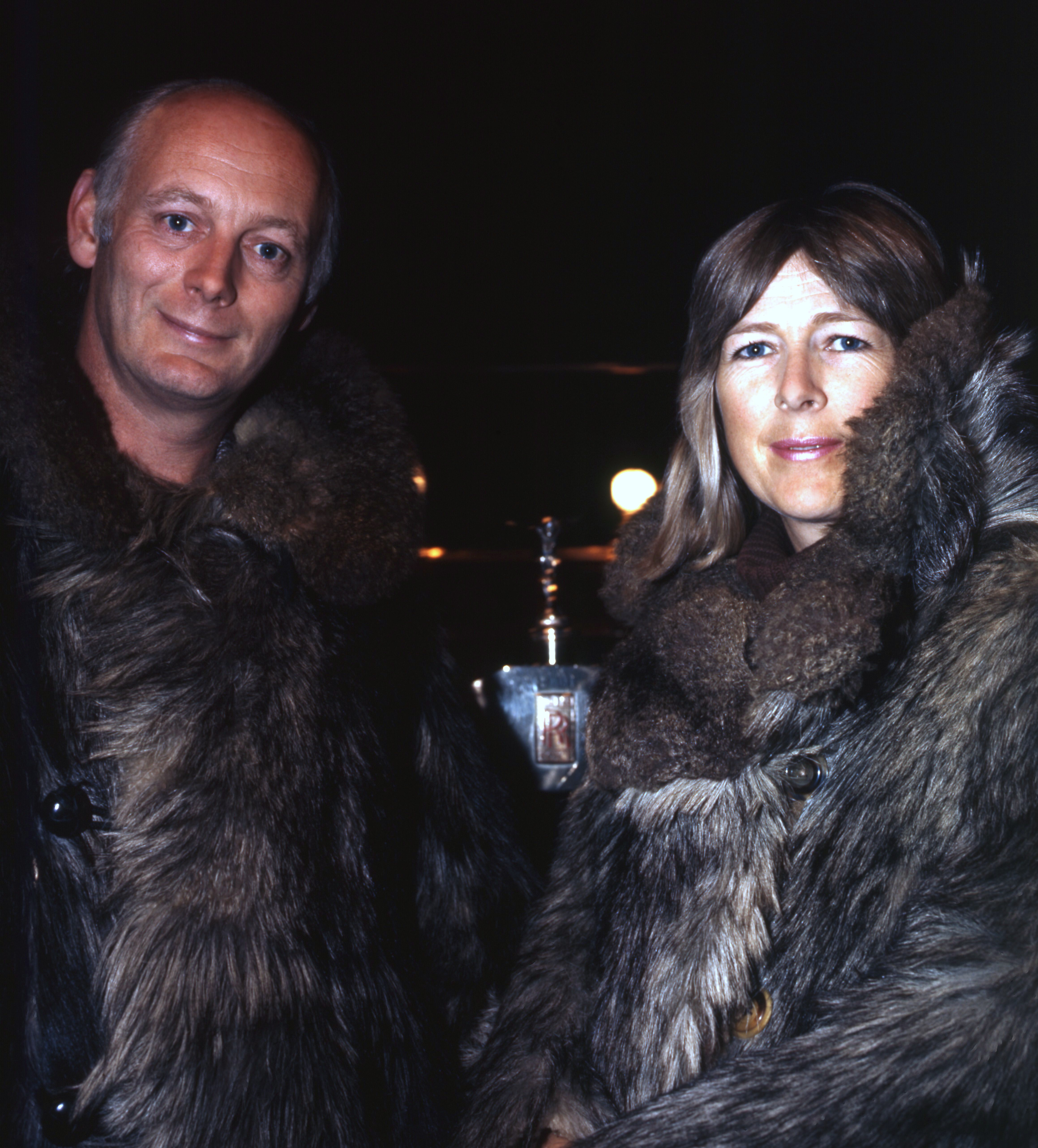 Edward & Belinda, Lord & Lady Montagu of Beaulieu, taken at Beaulieu, Hampshire